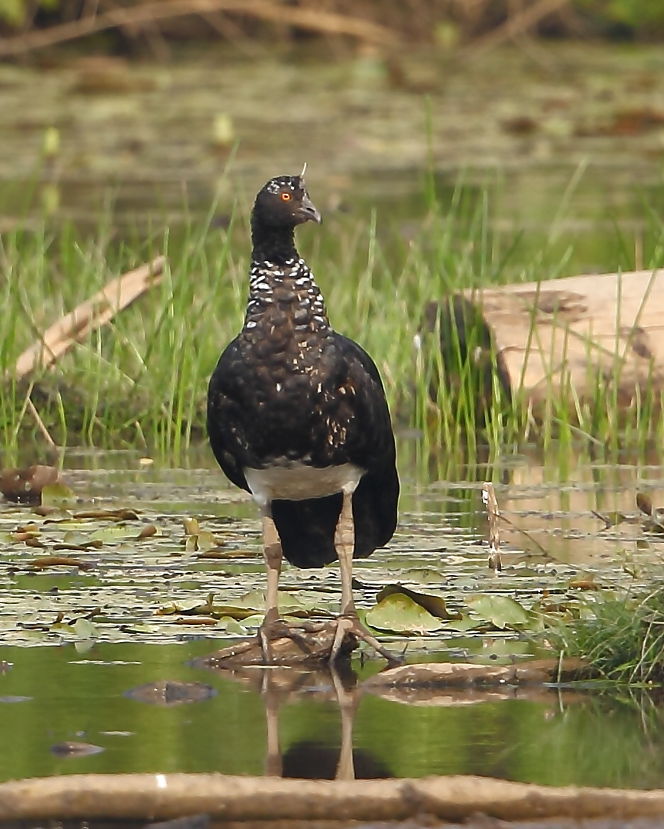 Horned screamer at Marabá - Pará - Brazil